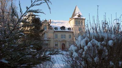 castle Schloss Lauterbach, front view